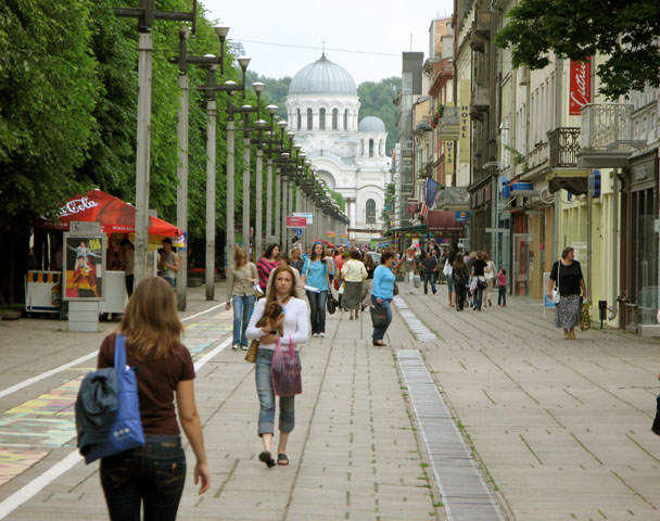 Laisvės avenue at the beginning of summer '07